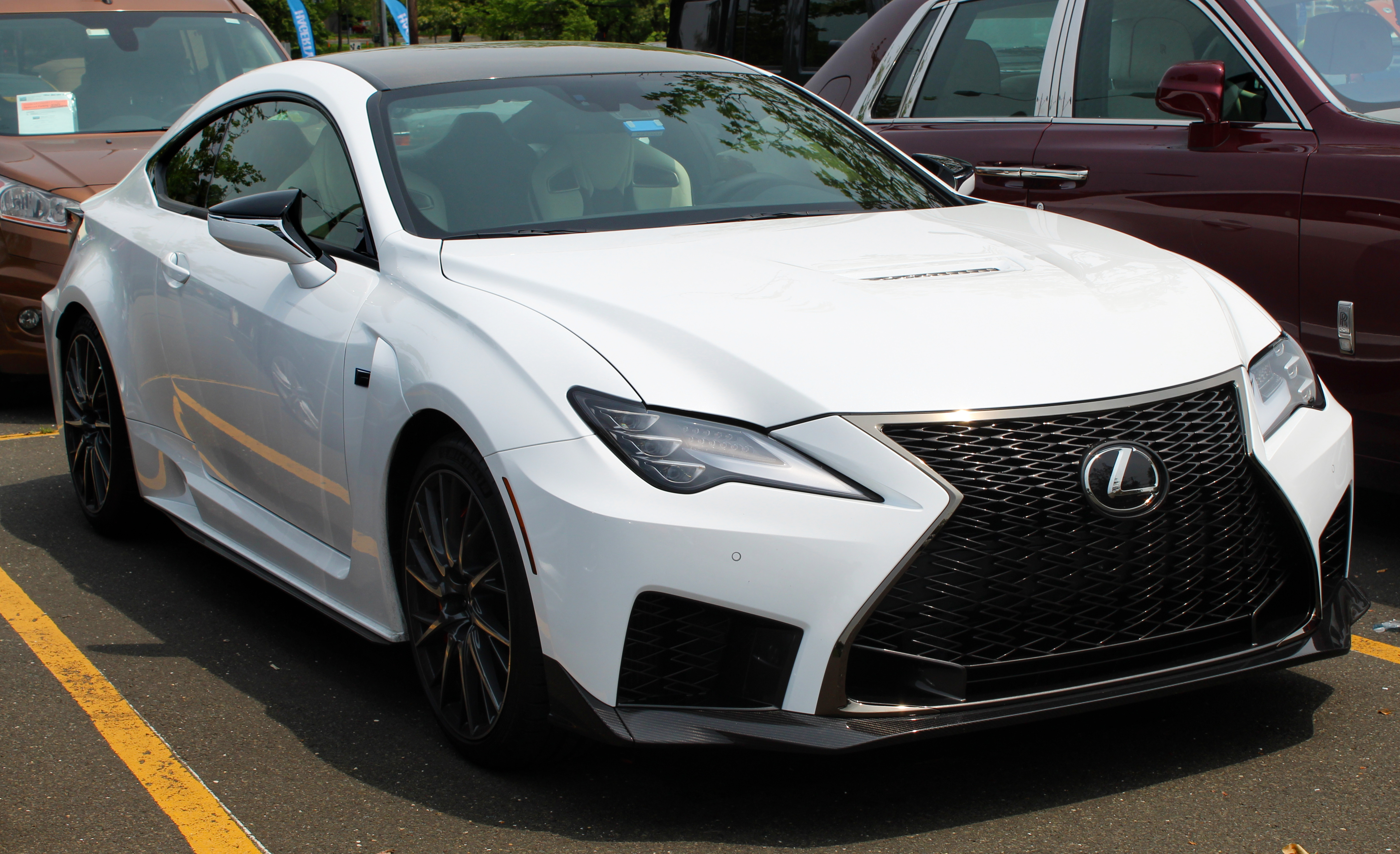 A 2019 Lexus RC F photographed in Greenwich Concours d'Elégance Hagerty parking lot, Connecticut, USA